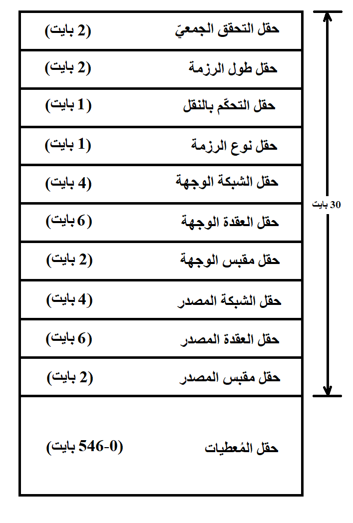 IPX Packet.